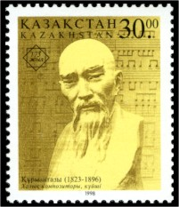 Kazakhstan's stamp, 175th anniversary of Kurmangazy Sagyrbayev, 1998, 30 tenge.